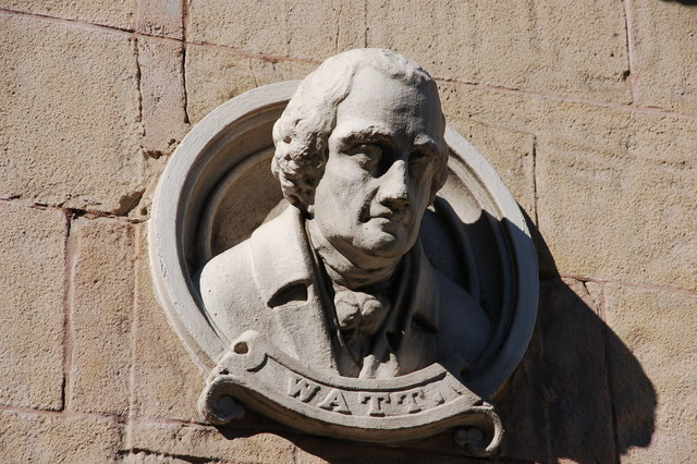 A head in Linenhall Street, Belfast (3). See 384019. This one is James Watt, the engineer. Continue to 1205129.